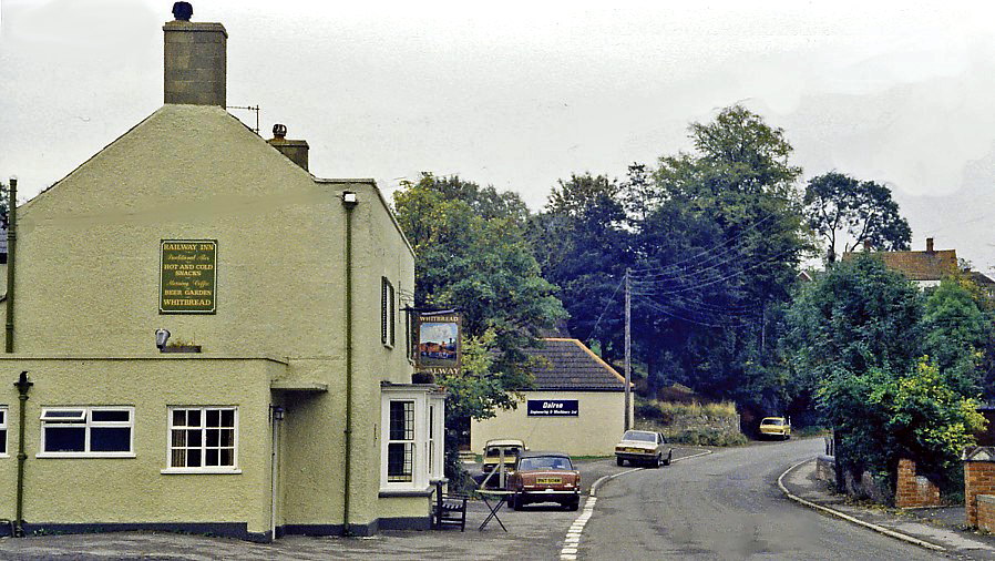 Site of Cam station, 1986. View east in Cam village, where the ex-Midland Coaley (left) - Dursley (right)branch crossed until closure from 12/8/63. The passenger service had ceased from 10/9/62 and on 18/5/94 the main-line station at Coaley that had been closed on 4/1/65 was reopened as 'Cam, for Dursley'.